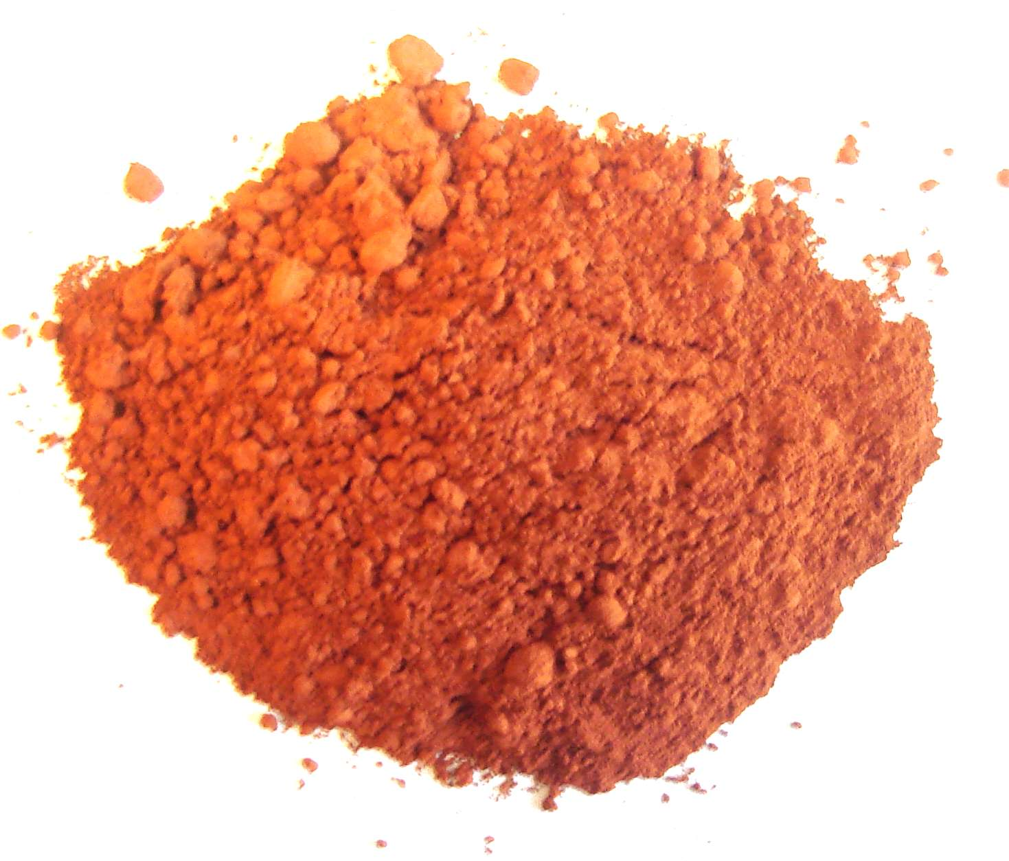 Burnt Sienna, natural pigment obtained by calcination of the Sienna Natural